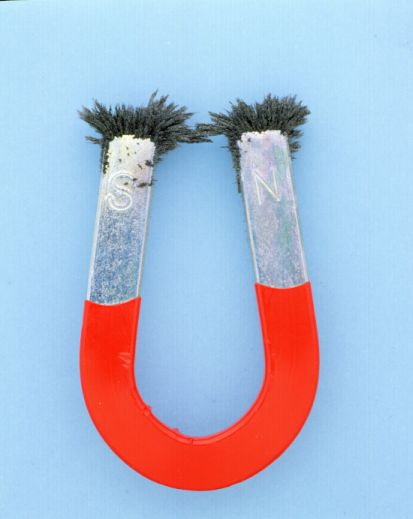 Construction